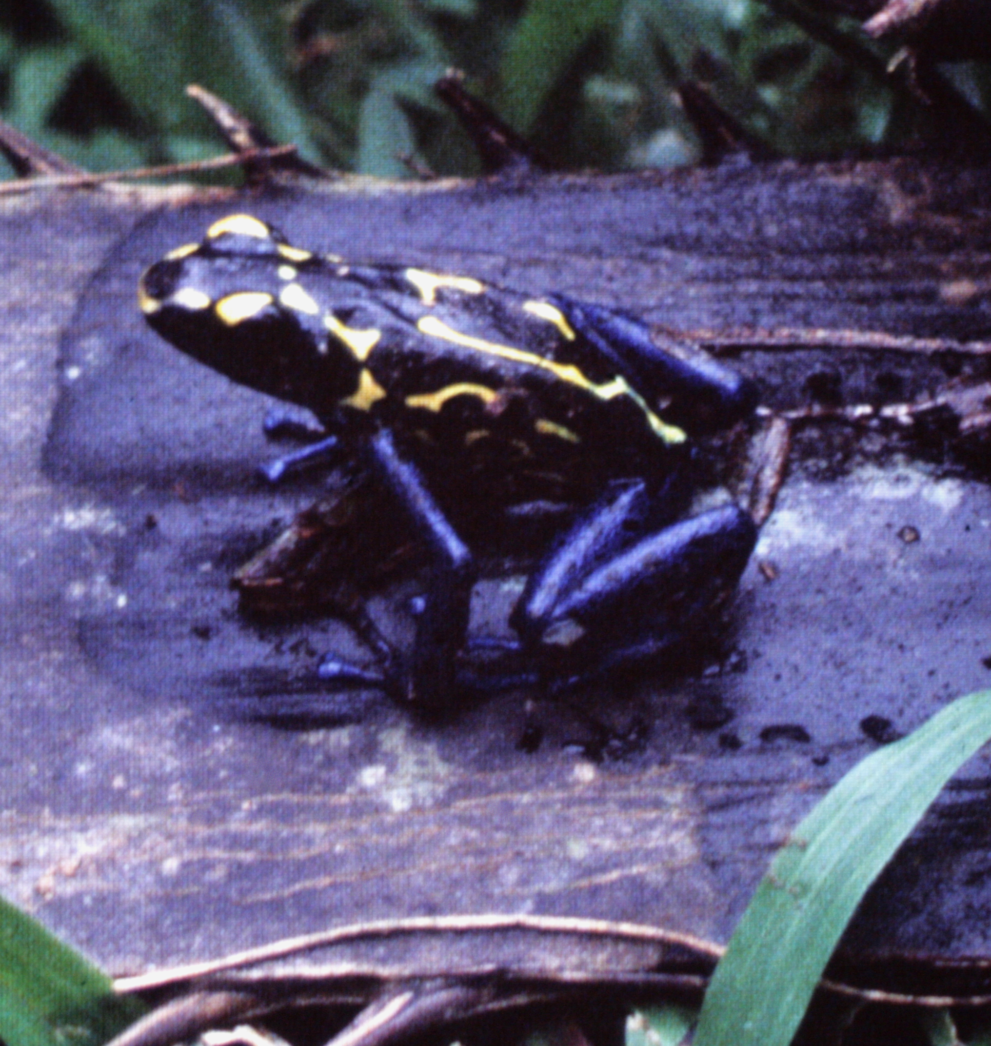 Dendrobates tinctorius, Suriname.